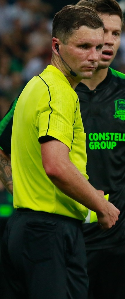 Gediminas Mažeika refereeing a UEFA Europa League game between FC Krasnodar and FK Crvena Zvezda.